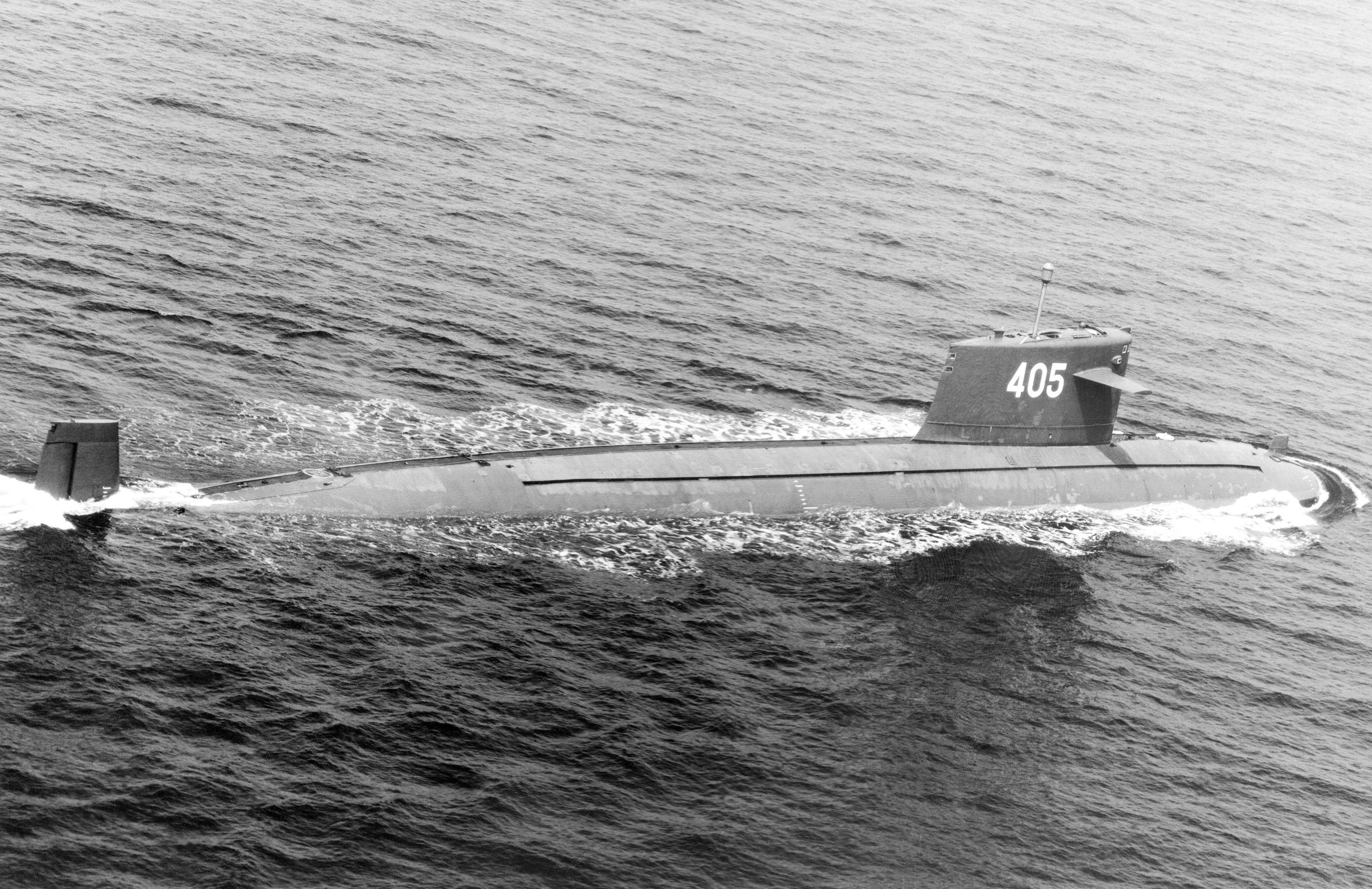 A starboard view of the Chinese Navy Han class nuclear-powered attack submarine No. 405 underway.